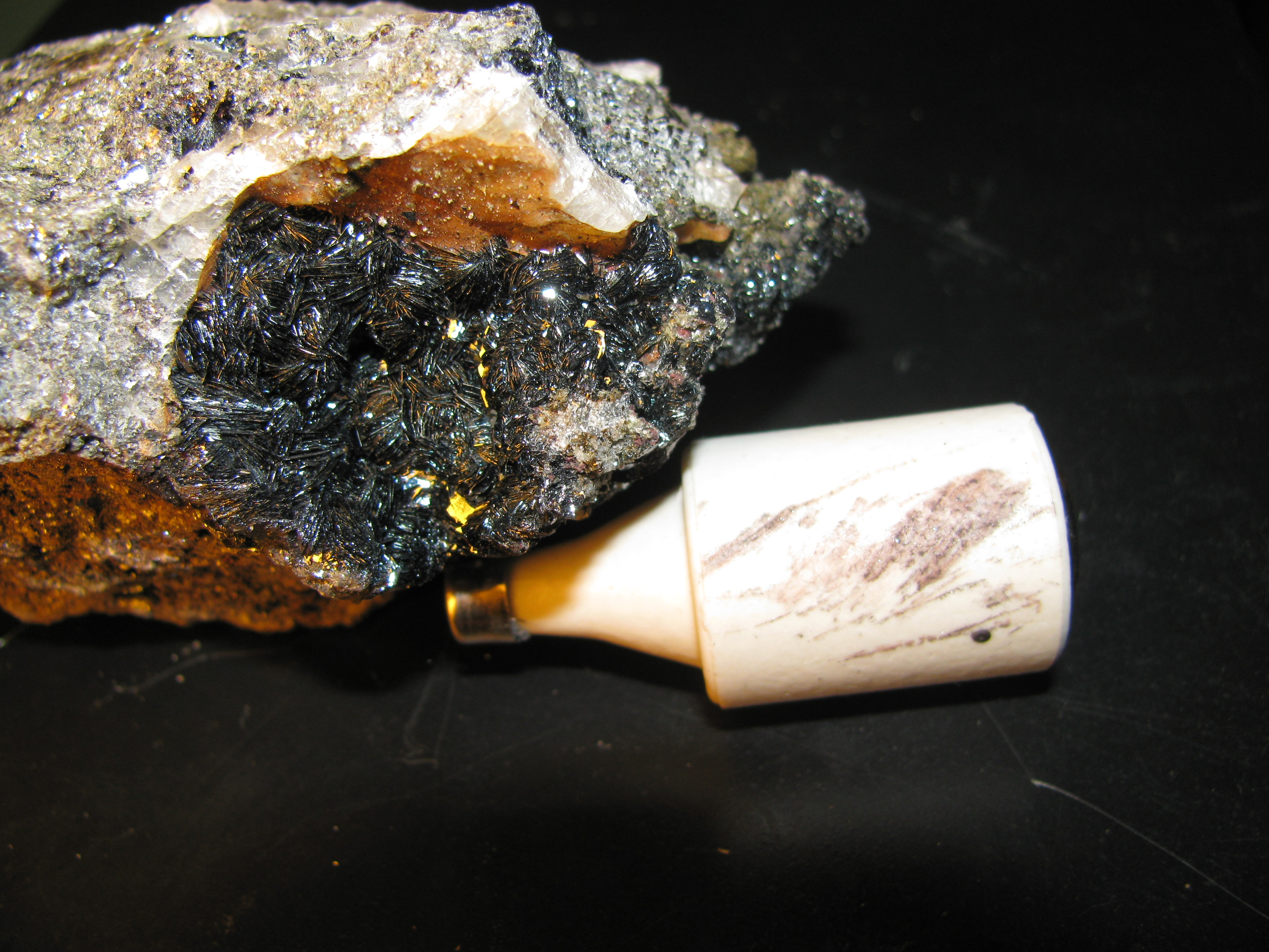 Hematite with reddish brown ("rust-red") streak.